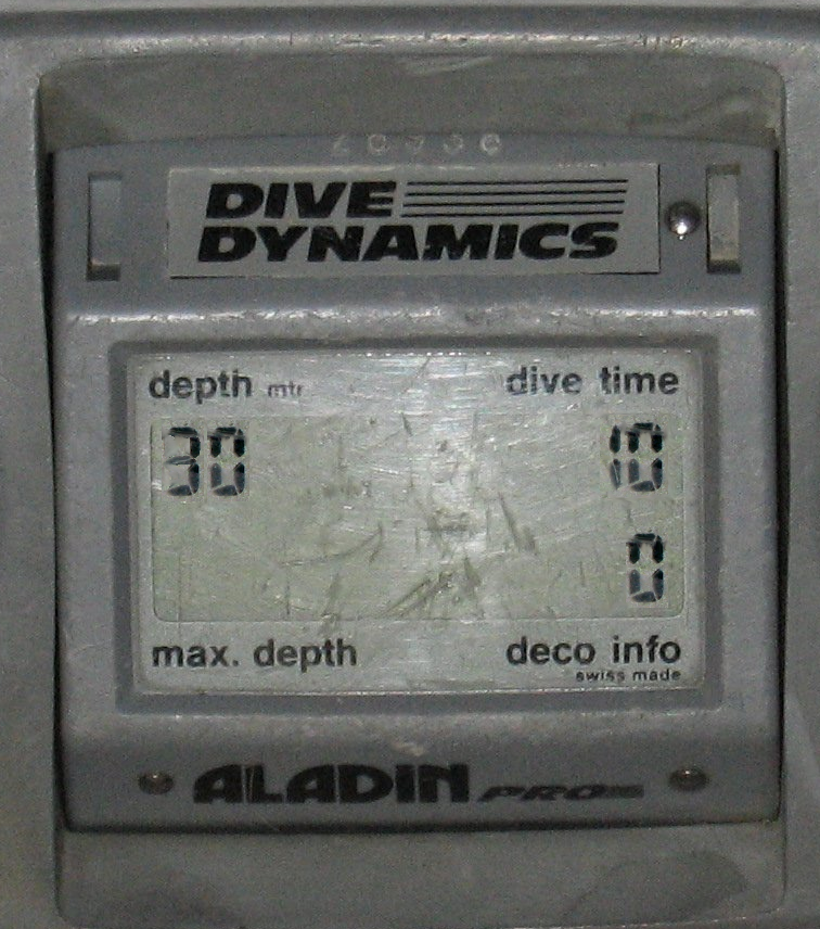 Display of Aladin Pro personal dive computer